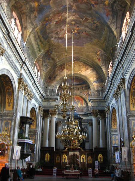 Carmelite Church, Lviv